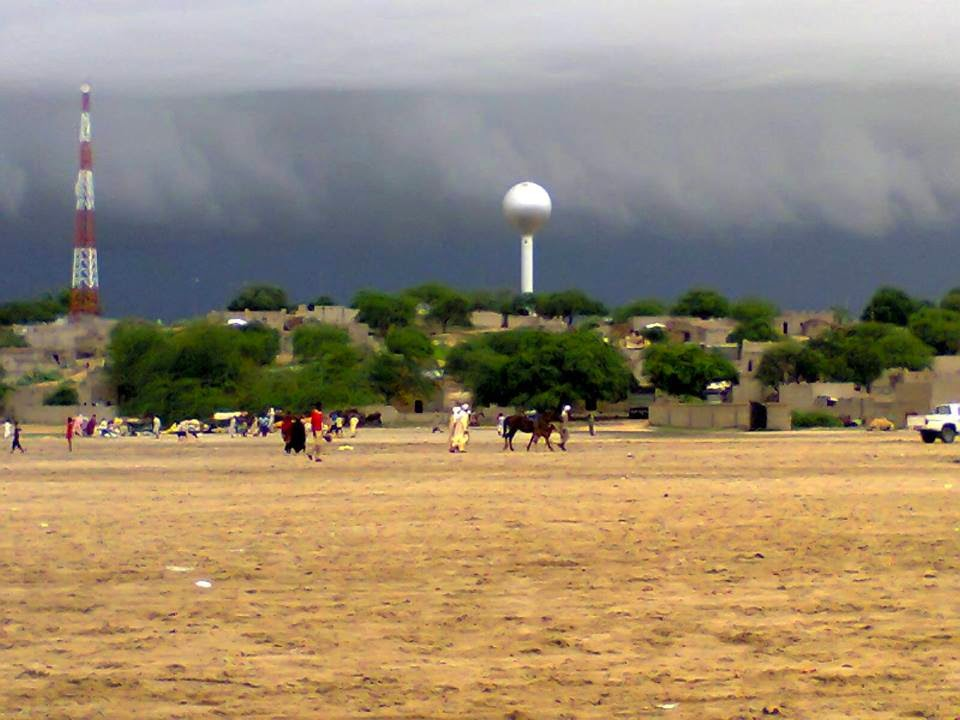 mssro